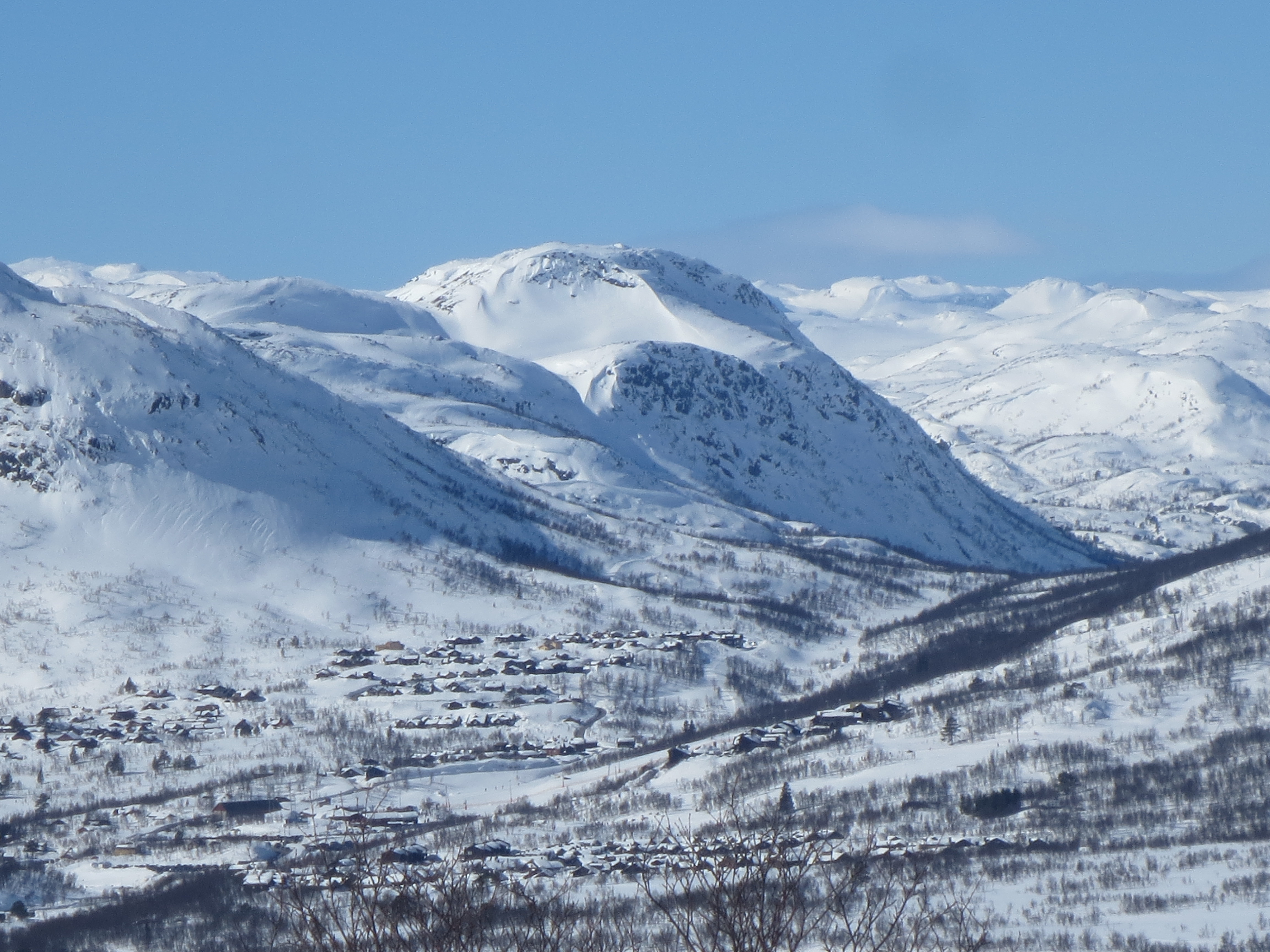 Image from the Hovden ski resort settlement in upper Bykle municipality, upper Setesdal valley, Aust-Agder county (Norway)